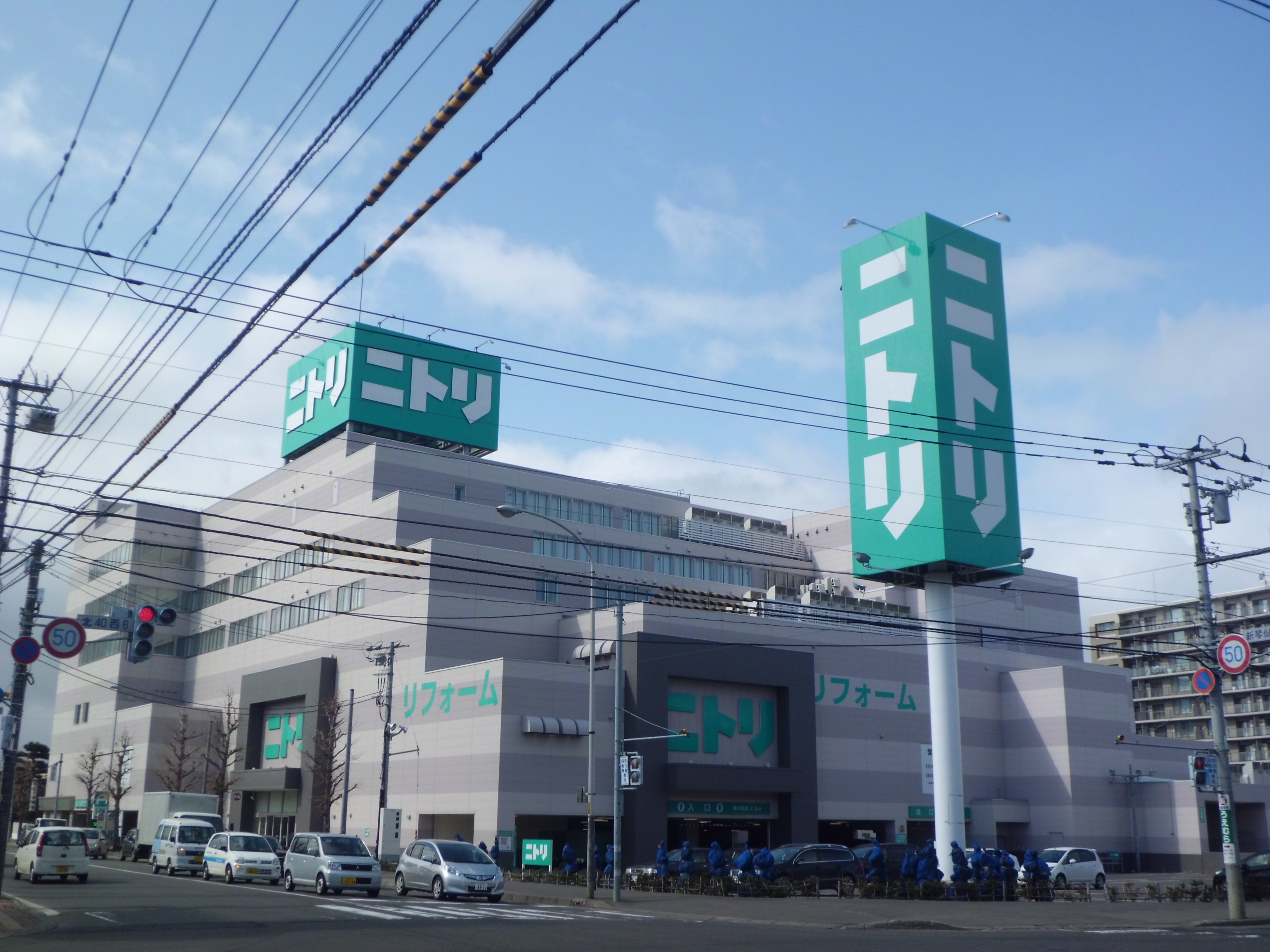 Main office Nitori.